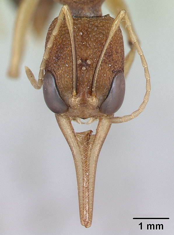 Head view of ant Harpegnathos saltator specimen casent0173581.